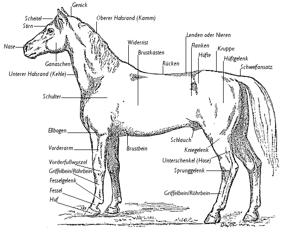 A graphic from a stallion, based on Image:Pferd MKL1888.png.